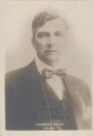 Portrait photo of actor Herbert Prior